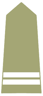 Polish Kapral